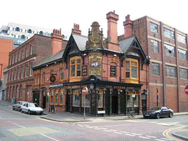 The Queen's Arms, Newhall Street With the wonderful glazed advertisement for their beers.